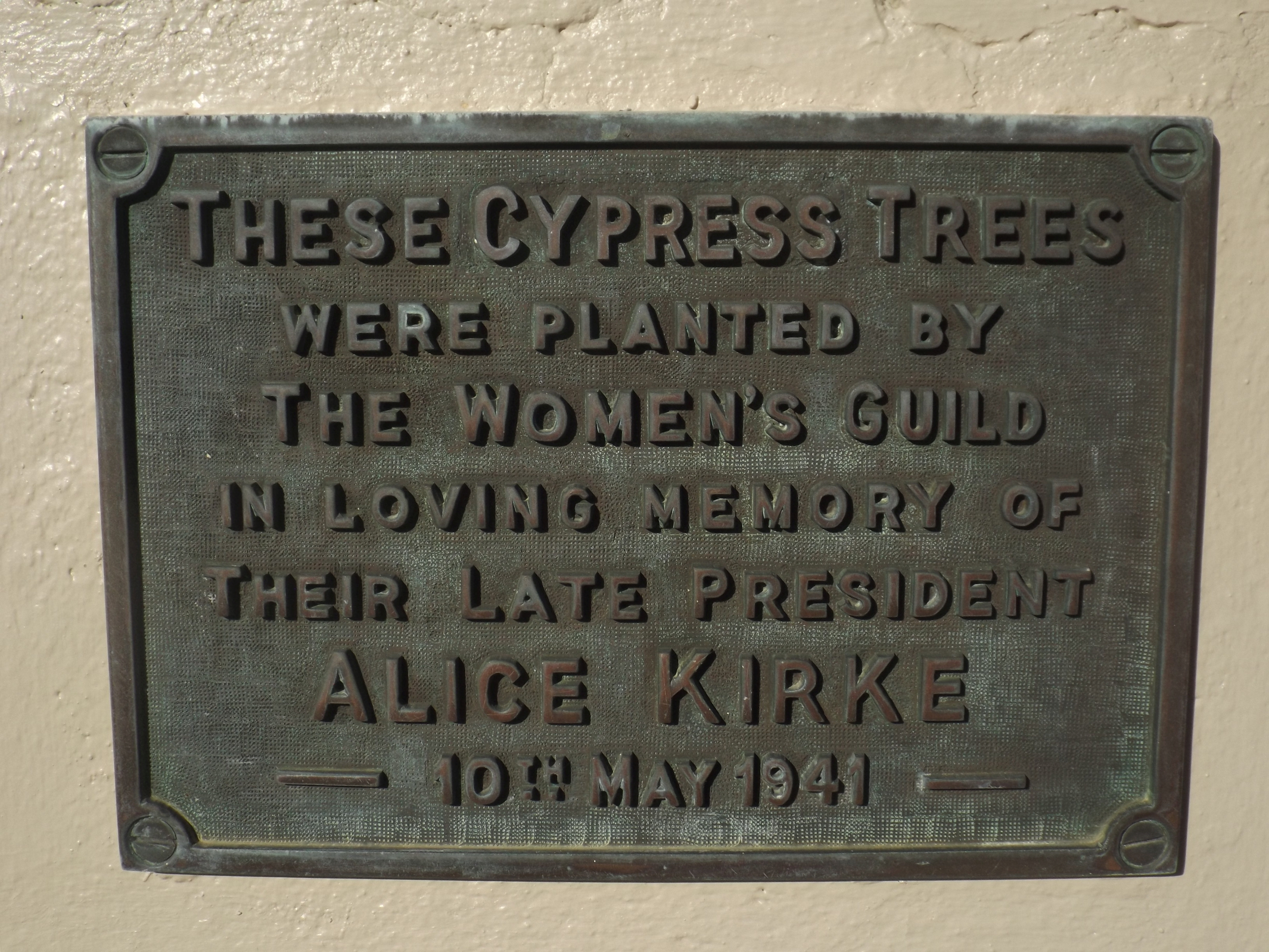 Photo of a plaque at St Stephen's Church at Ipswich, Queensland, Australia. The plaque commemorates the Women's Guild and the planting of cypress trees at the front entry to the church in May 1941.